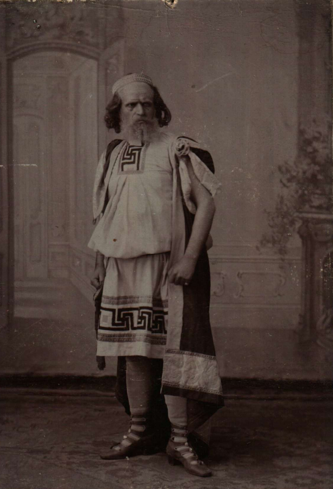 Bulgarian actor Dimitar Antonov (1859-1904)